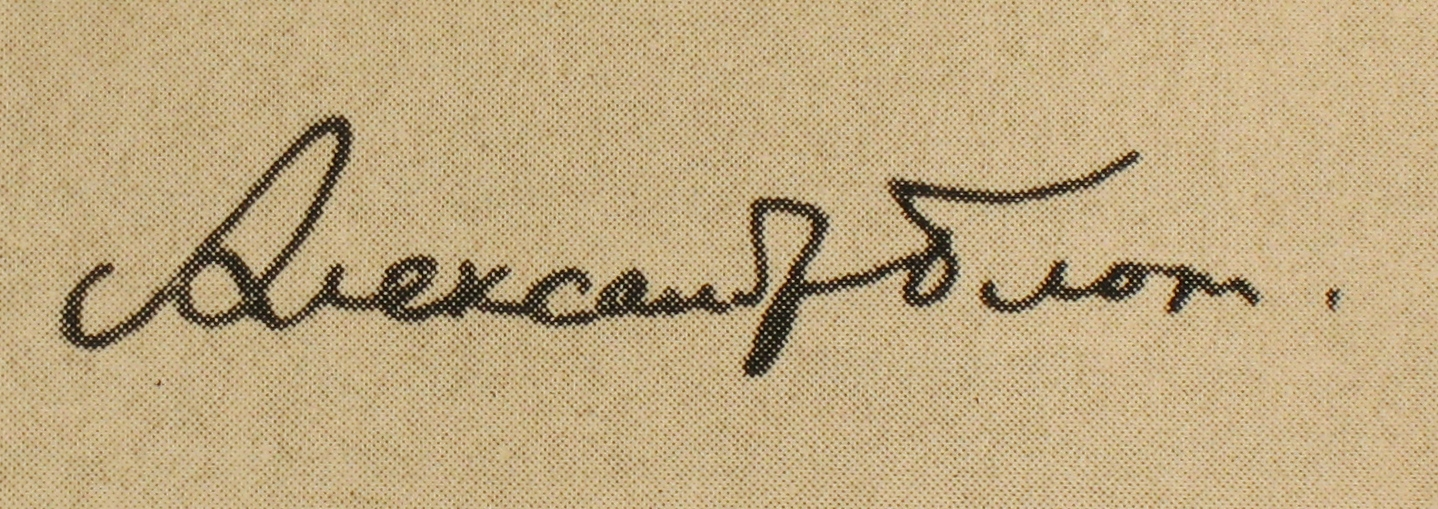 Russian poet A. Blok signature.